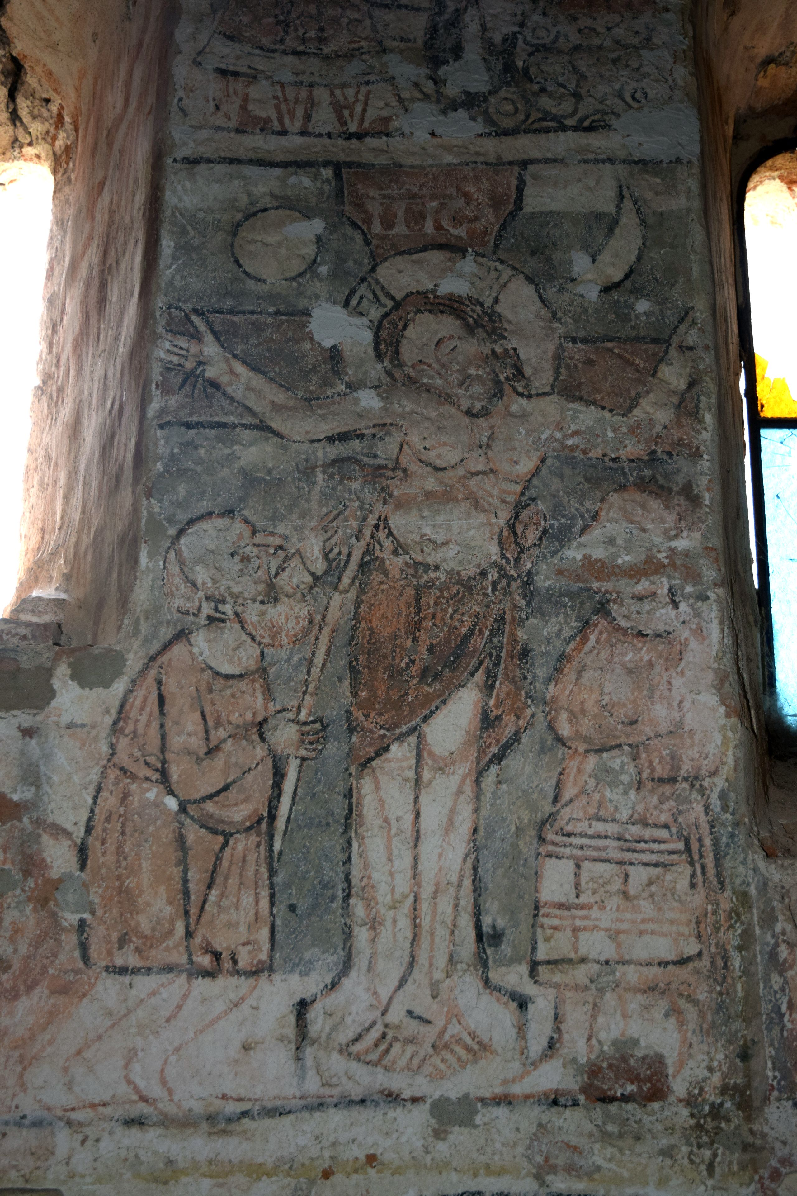 Šivetice, Church of St. Margaret of Antioch, apse center